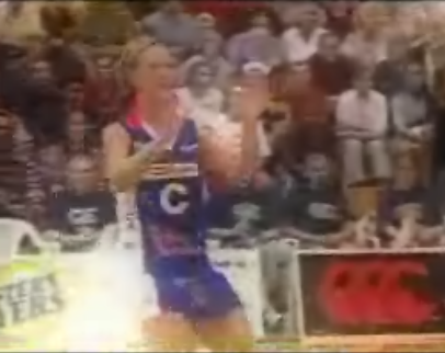 Netballer Anna Stanley in 2000.